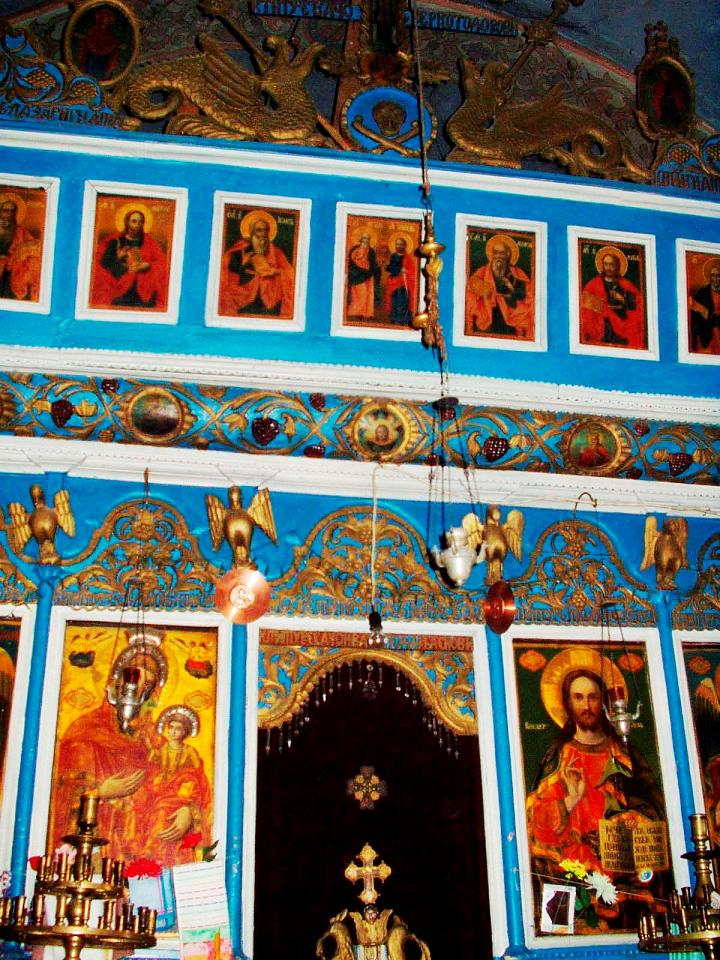 A church in Hayredin, Vraca, Bulgaria